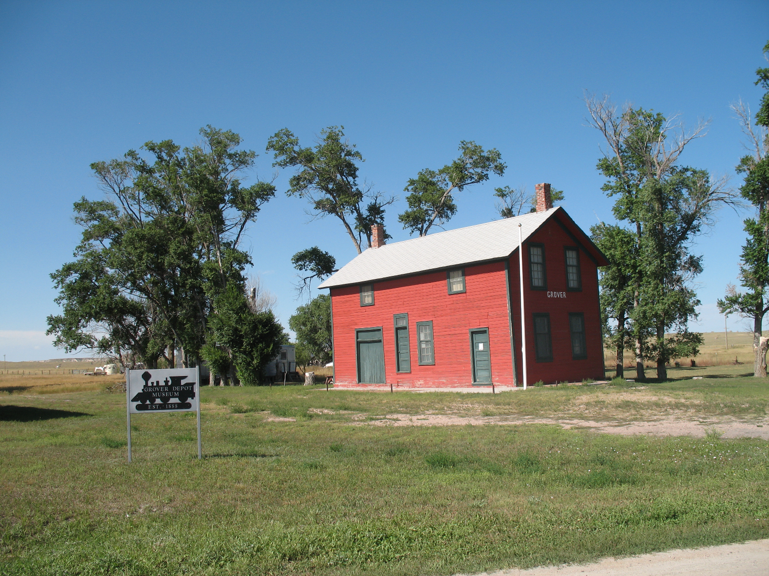 The former railroad depot at Grover, Colorado, USA. Now a museum.